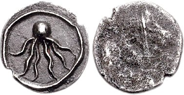 Etruria, Populonia. 3rd century BC. AR As (0.92 g). Scruple standard. Octopus Blank. Vecchi I 44 (same obv. die); HN Italy 227 (uncertain mint); SNG ANS 20; SNG Lloyd 20-21; de Nanteuil 29 (same obv. die); Jameson 18. EF, toned, a hint of porosity on reverse. Very rare, and the second known from this obverse die. From the Peter J. Laux Collection.